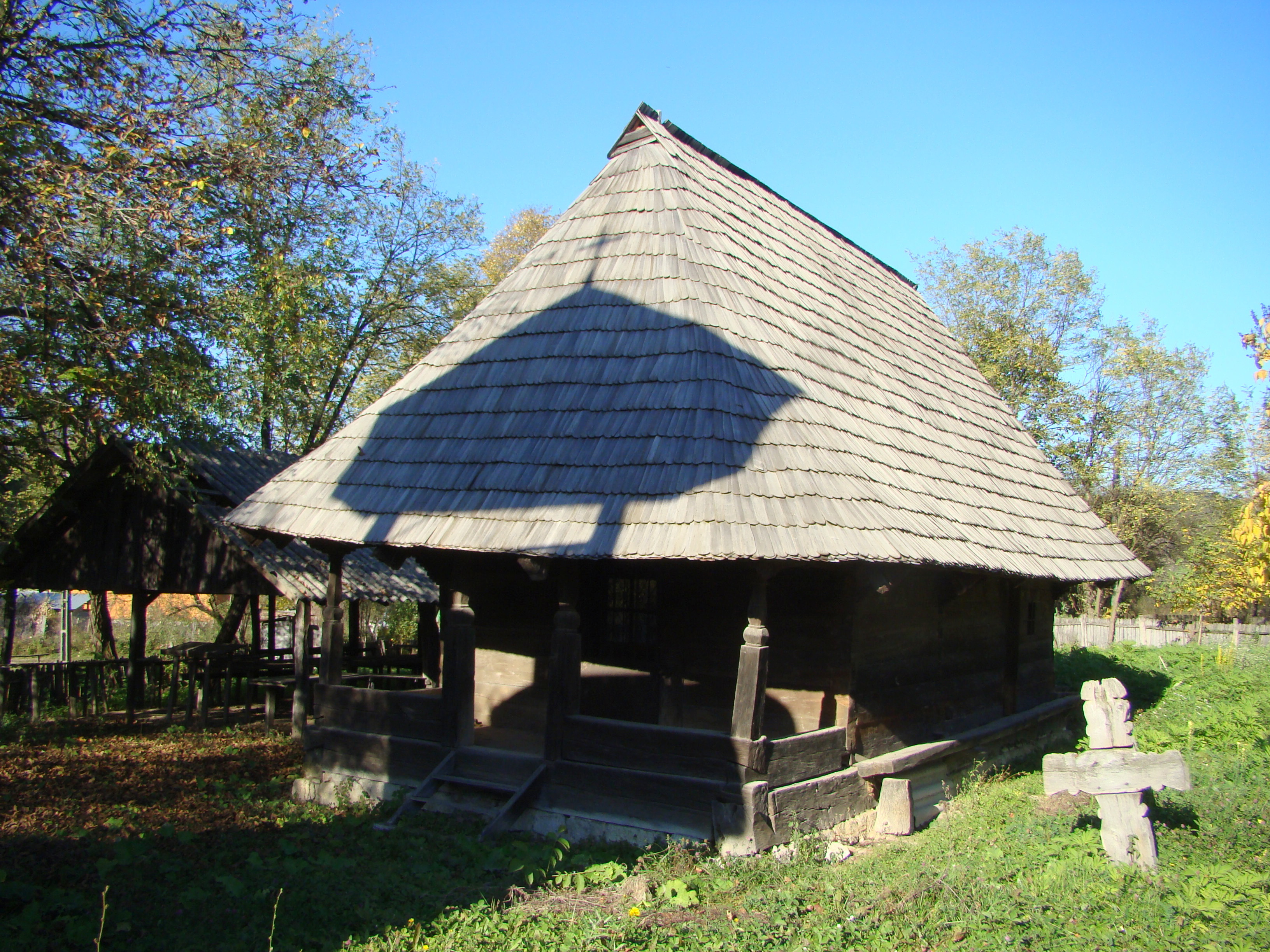 Wooden church in Sura, Gorj county, Romania